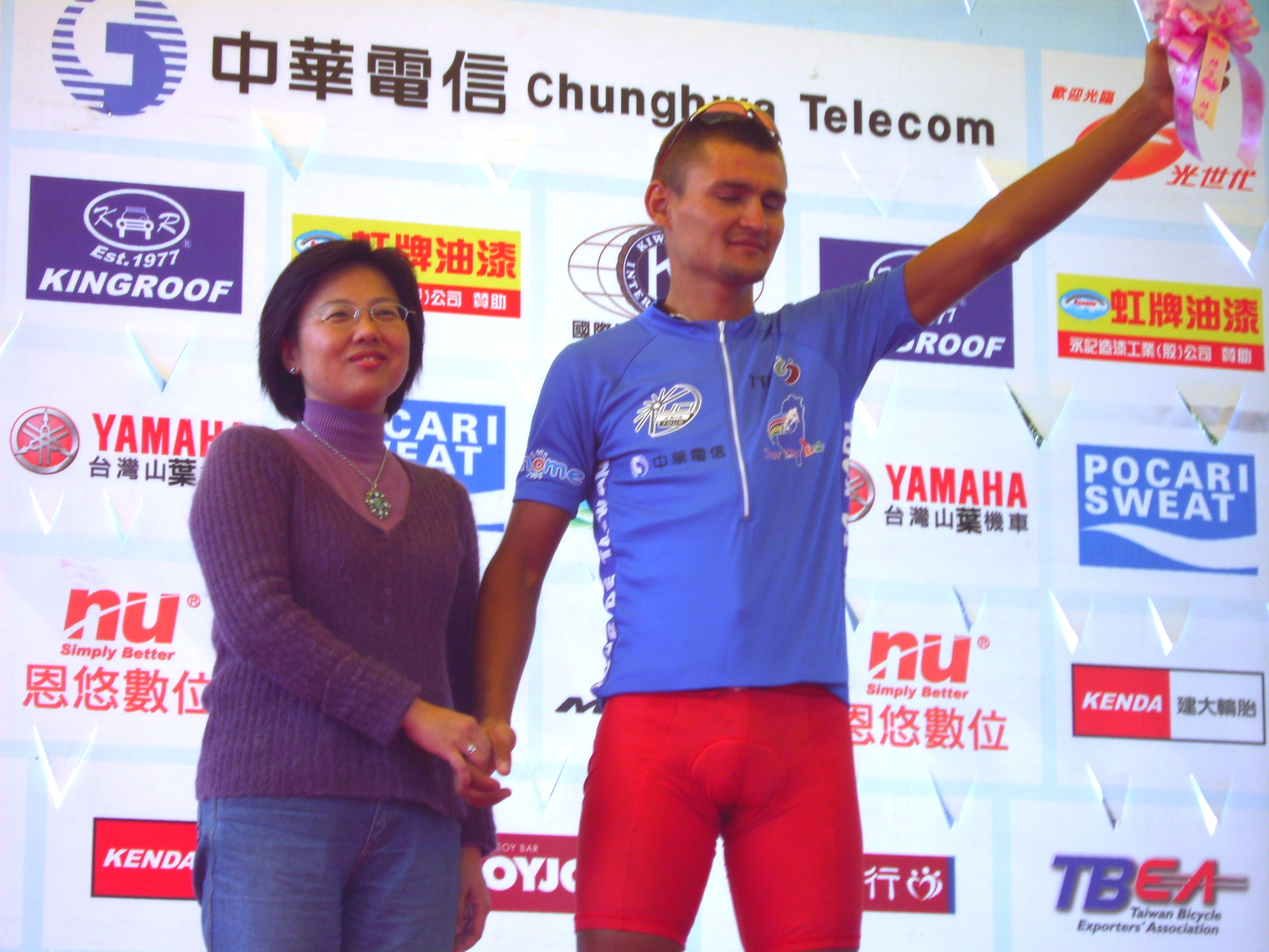 Yevgeniy Yakovlev is the Asian Group winner of 6th Stage of 2007 Tour de Taiwan.